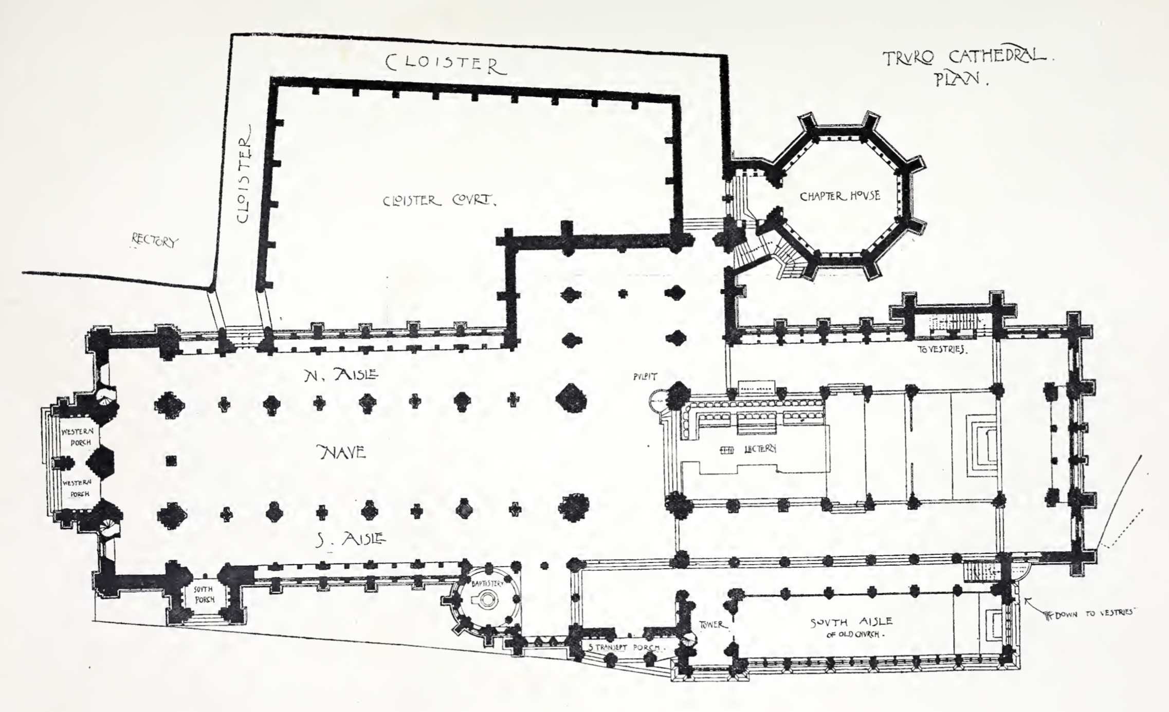 Truro Cathedral - plan